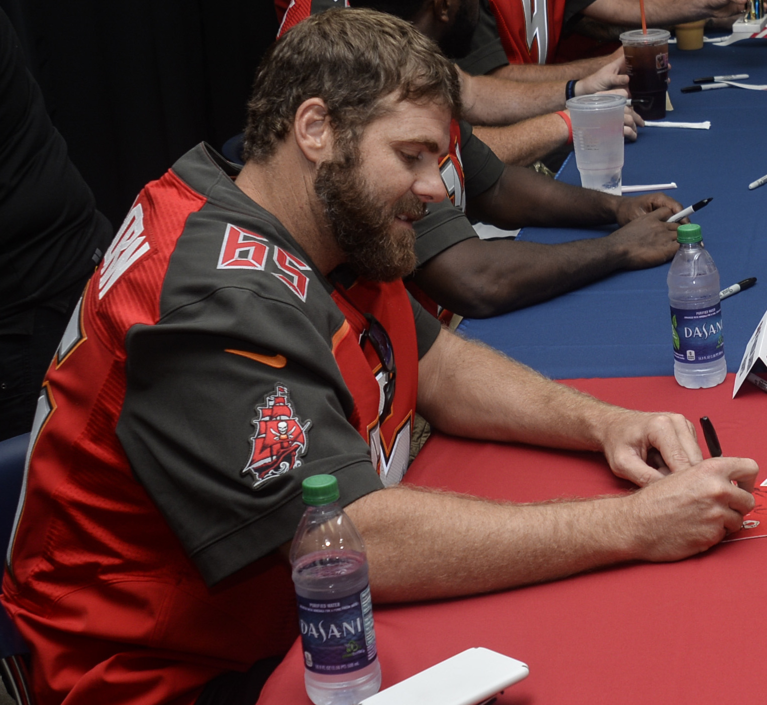 Players from the Tampa Bay Buccaneers sign autographs for service members during a meet and greet at MacDill Air Force Base, Fla., Nov. 7, 2017. The Bucs visited the Base Exchange to sign autographs and pose for photographs with personnel before departing for a base tour.